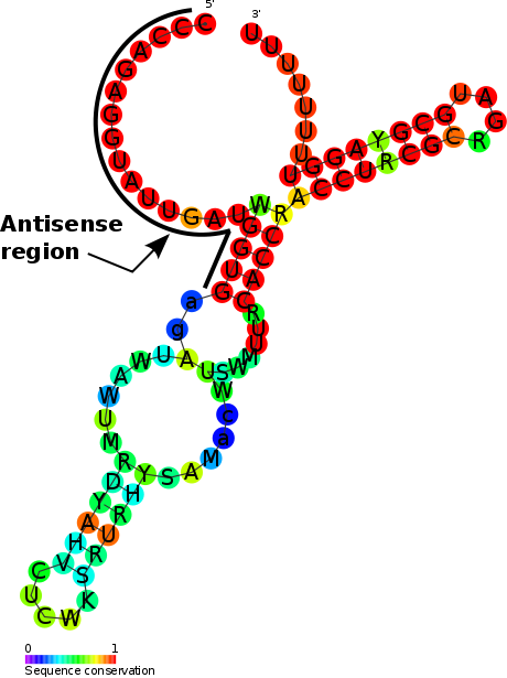 The secondary structure and conservation of the sRNA OmrA-B.